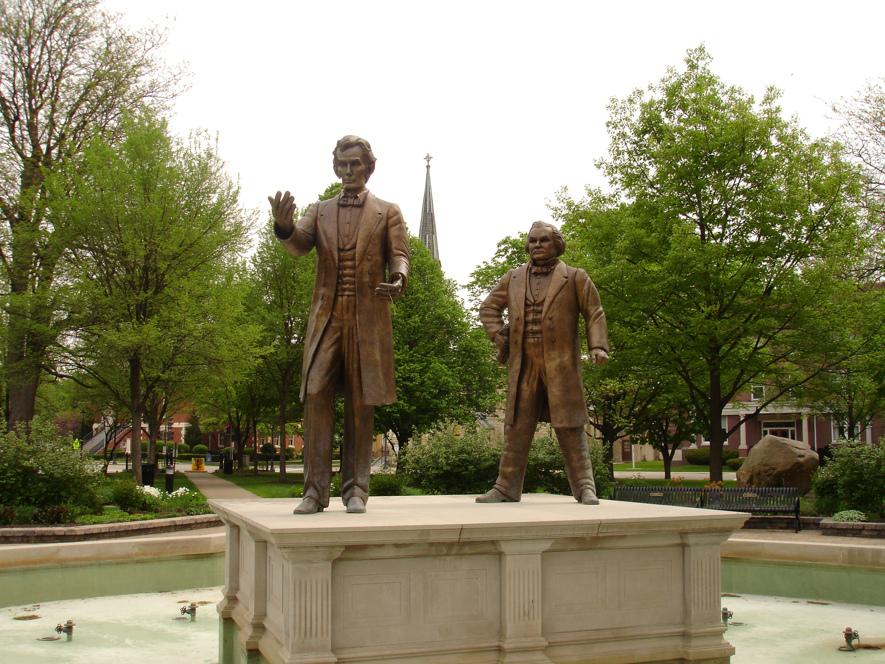 Statues of Abraham Lincoln and Stephen A. Douglas in Washington Park, Ottawa, Illinois USA, near the site of the first of the 1858 Lincoln-Douglas Debates.